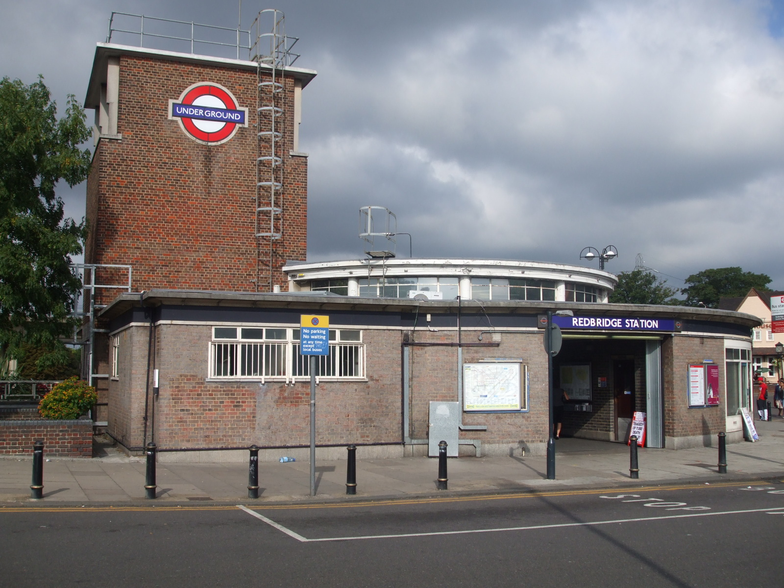 Redbridge tube station building looking towards eastern entrance